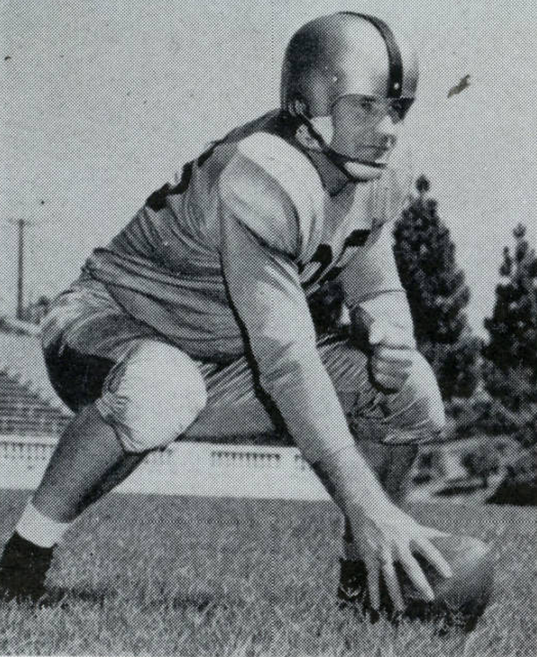 Bob Pifferini circa 1949